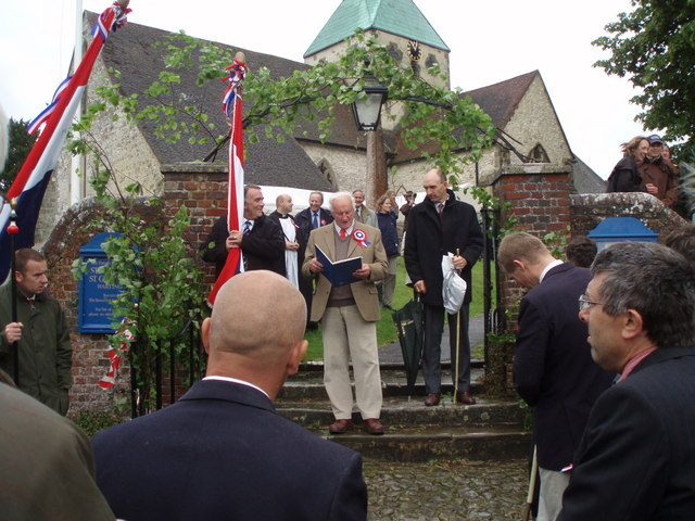 The Old Club Roll is called. Humphrey Sladden, secretary of the oldest friendly society in England, calls the names of the 200 members of the Club to attend church, "and a feast thereafter."